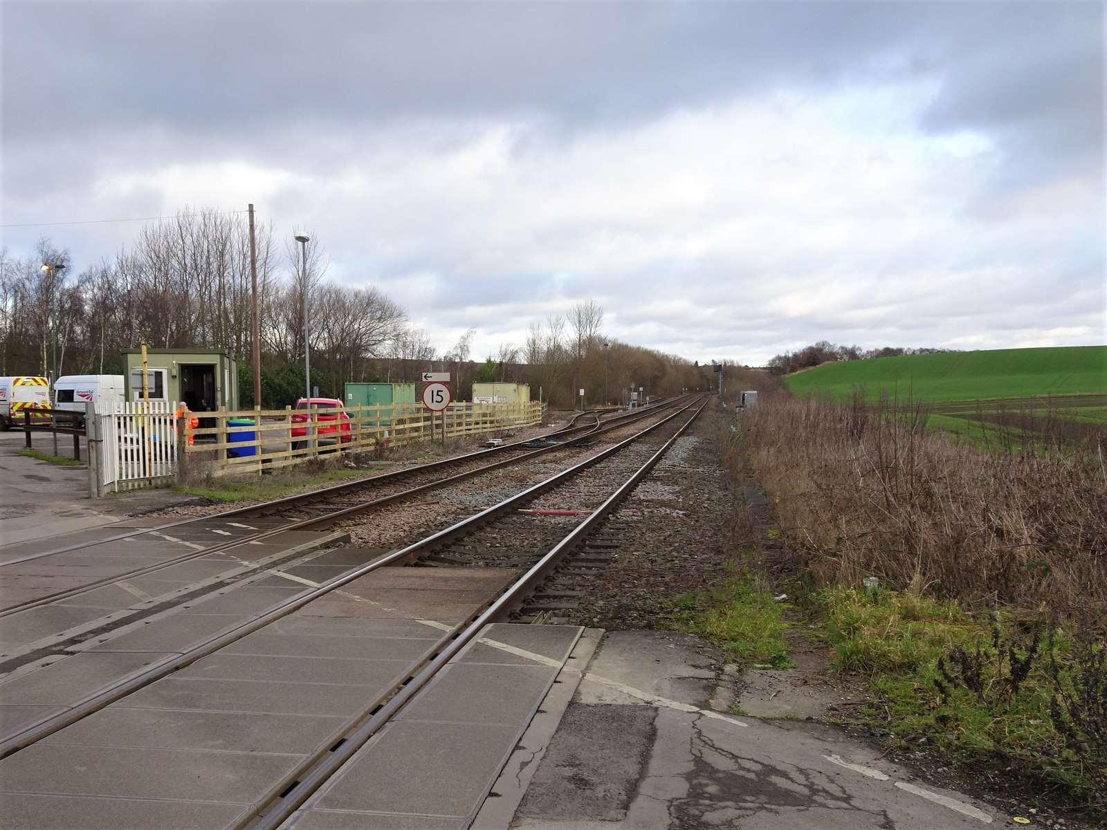 Crofton railway station (site), YorkshireOpened in 1853 on the Lancashire & Yorkshire Railway's route from Wakefield to Pontefract, this station closed to passengers in 1931 and completely in 1952. It was subsequently demolished. View north east towards Streethouse and Pontefract.